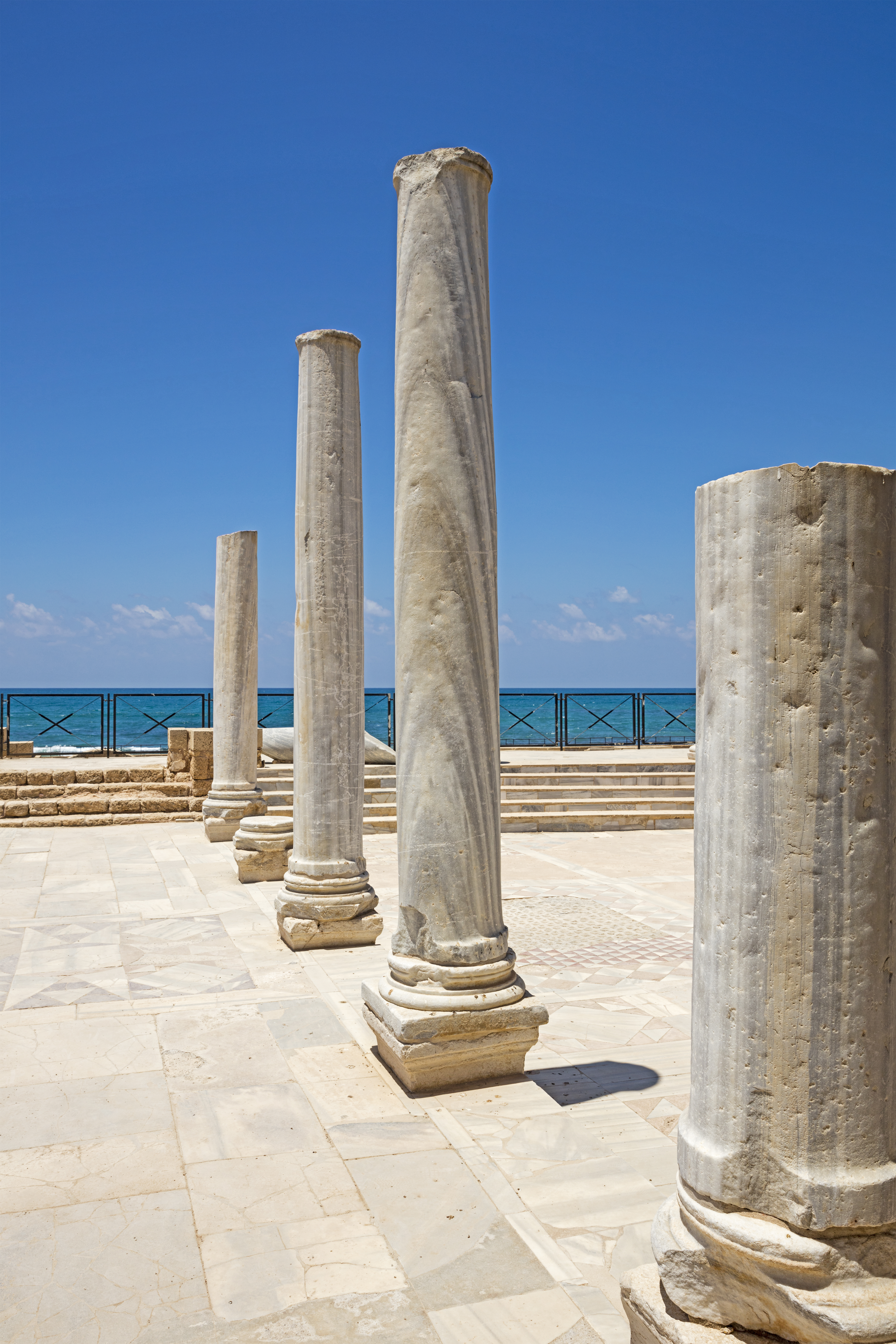 Caesarea Maritima was built during the reign of Herod the Great (c. 15 BCE). During its nearly 1,800-year history, Caesarea was part of Roman Judea, a Byzantine province, under Arab rule, and was captured during the First Crusade.